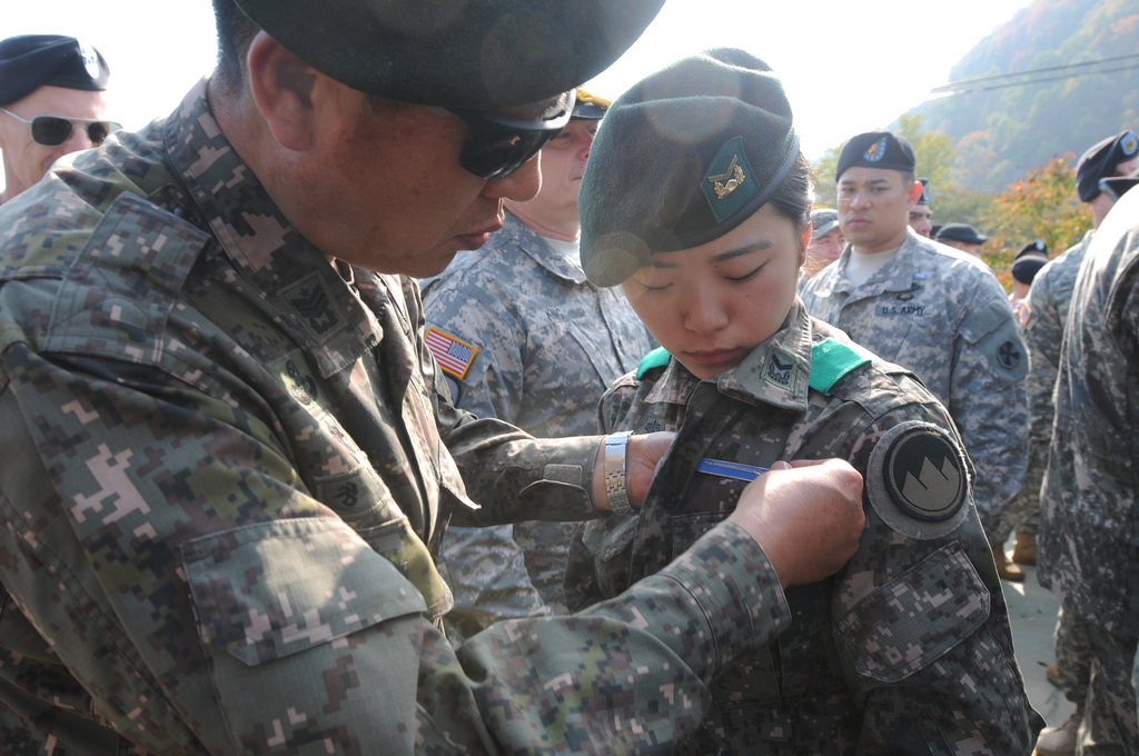 Republic of Korea Staff Sgt. Kwon, Minzy, infantryman with the ROK’s 21st Division, is awarded the Expert Infantryman Badge on Camp Casey, South Korea, Oct. 23. Minzy along with Staff Sgt. Kim, Min Kyoung are the first women in the ROK to earn the badge. The EIB is a grueling two-week course that has historically only been offered to males in combat arms specialties. With current policy changes and many women now filling combat roles, women are now eligible to compete for the badge.